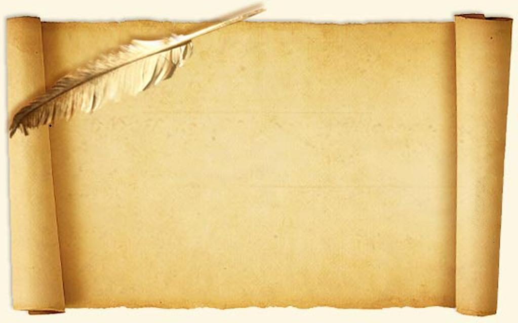 created with photoshop